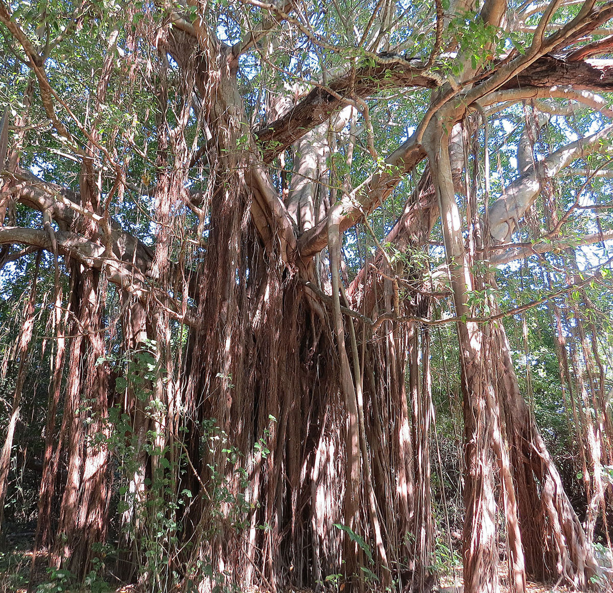 This is all one tree, with air-roots turning into trunks. It is a strangler fig, comparable to the Banyan Tree of cultural and religious importance in the Orient. Photo from Copalita Park, southern Mexico.